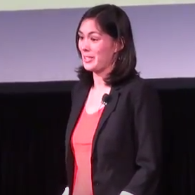 Samantha John is the chief technology officer and co-founder of Hopscotch, a mobile app to make & share mobile games.